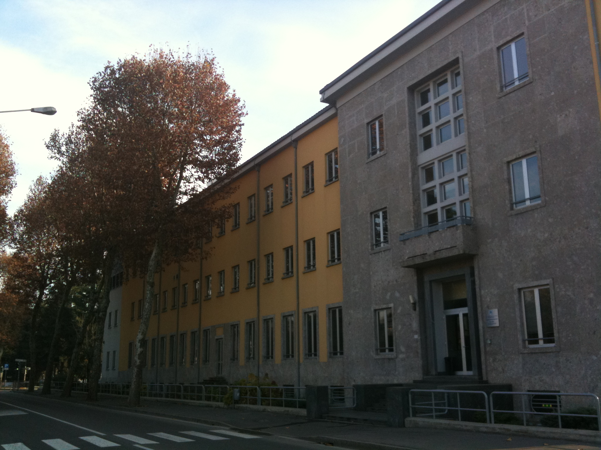 The entrance of the faculty of engeneering of the university of Bergamo in the near town of Dalmine.